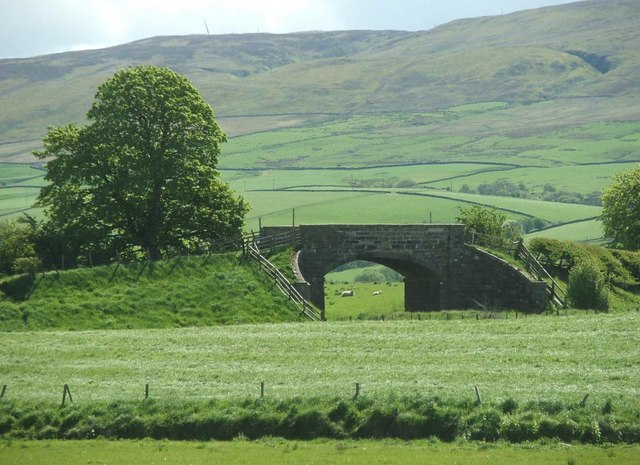 Looking east down the Nith Valley from the west end of Mansfield, East Ayrshire